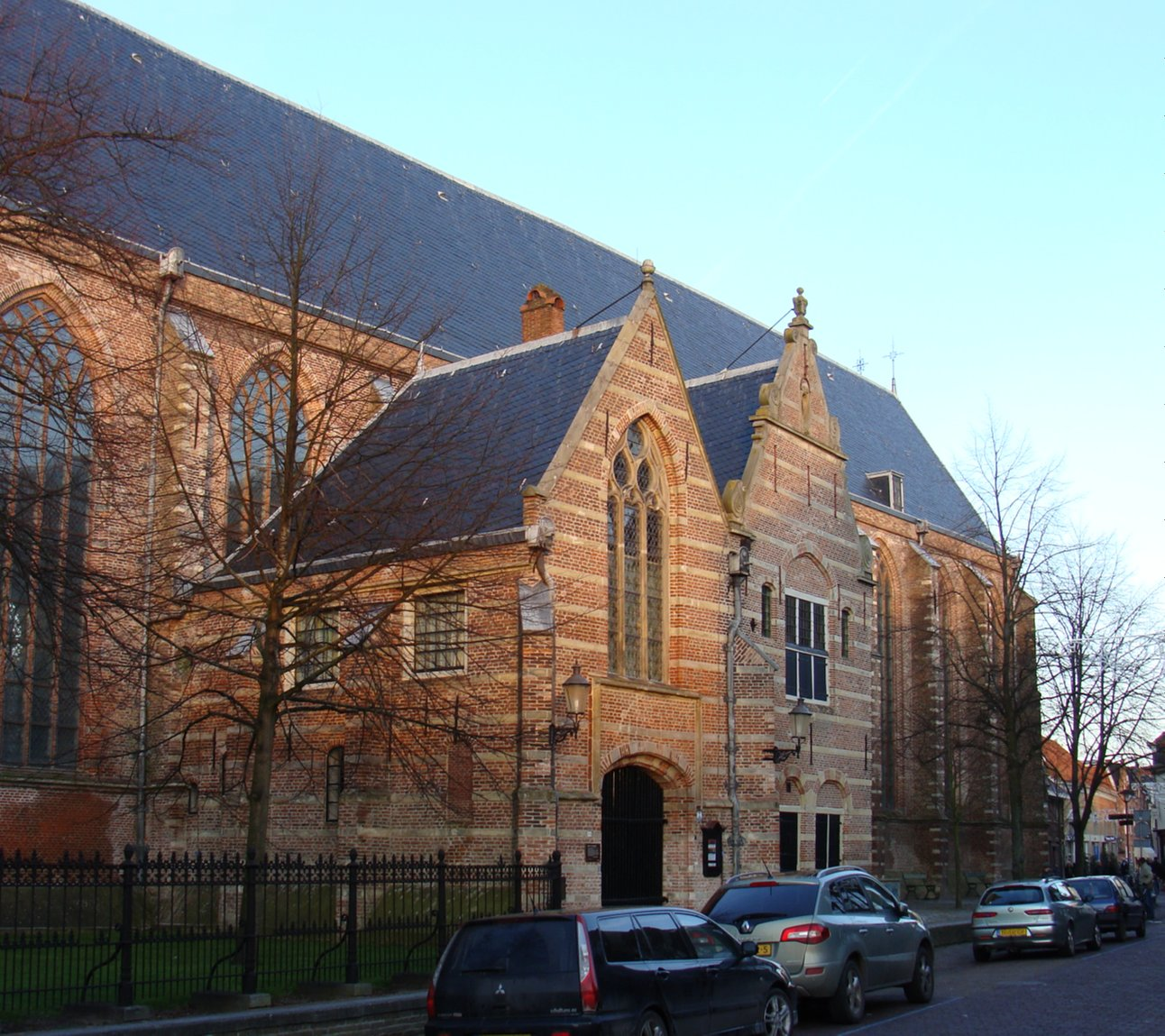 South entrance of the Westerkerk in Enkhuizen (left) and Librije (library), right